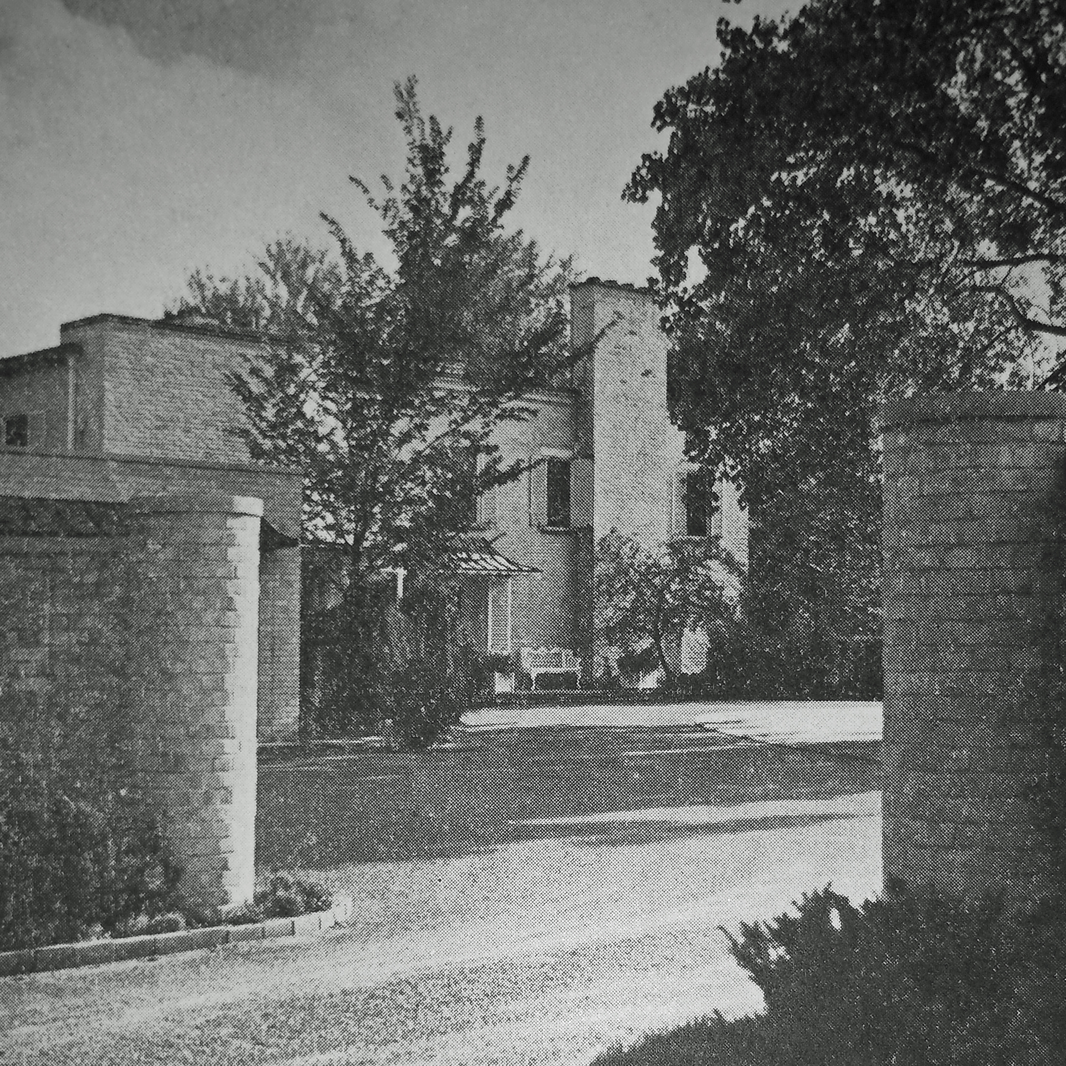 Home of Herbert B. Trix by Hugh T. Keyes (1937)